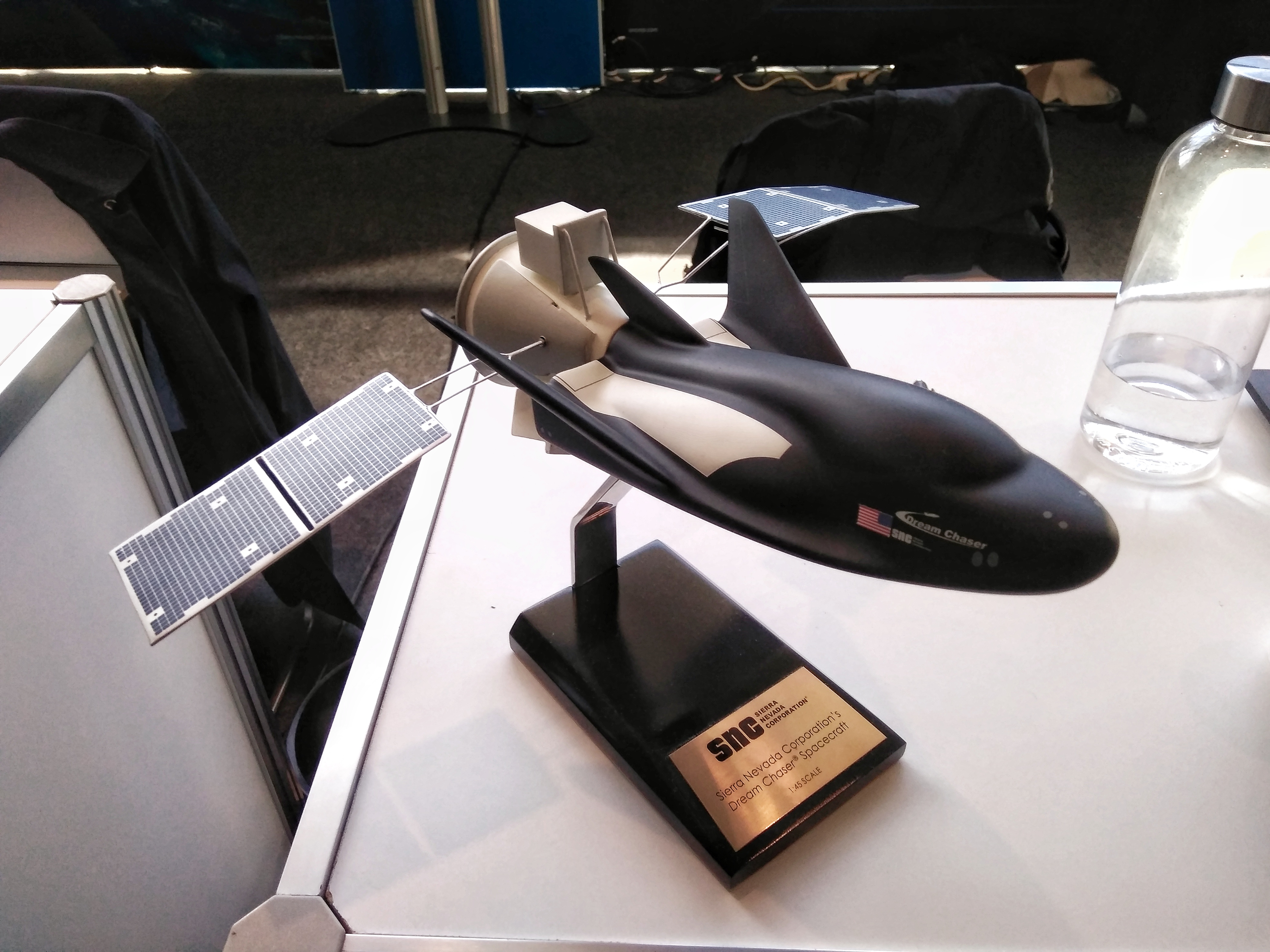 Model of SNC's Dream Chaser spacecraft. This is the cargo variant of the vehicle that is supposed to supply the ISS. Picture taken at IAC 2018 in Bremen, Germany.